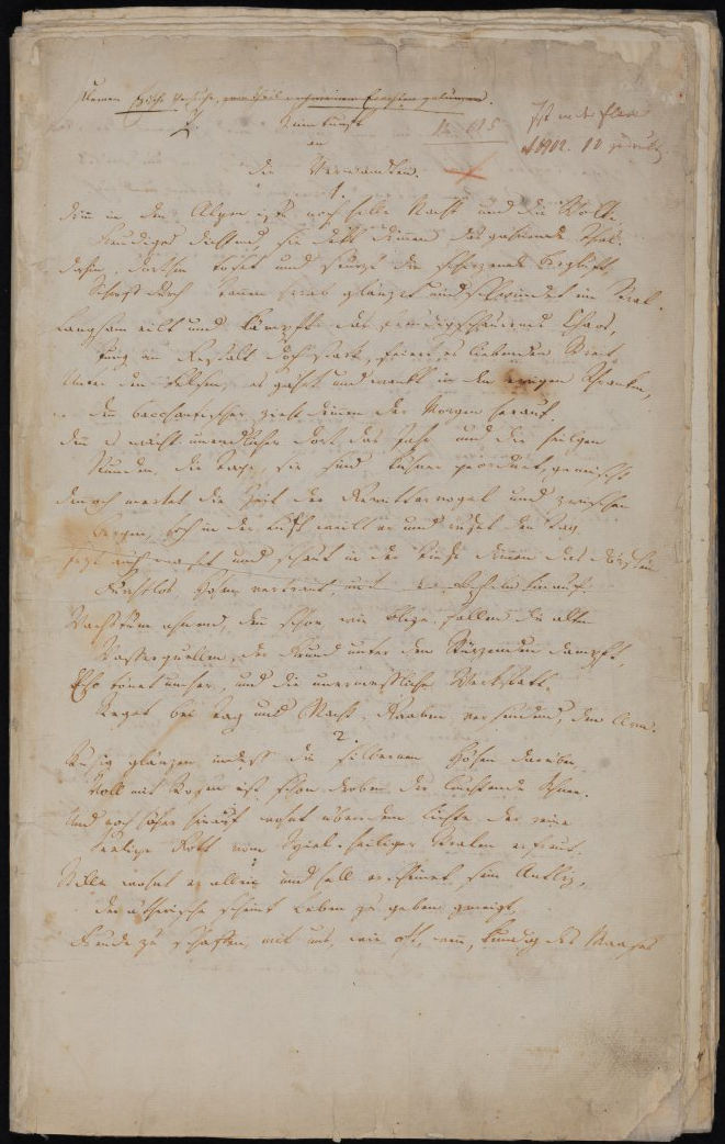 Page 1 of "Homburger Folioheft"